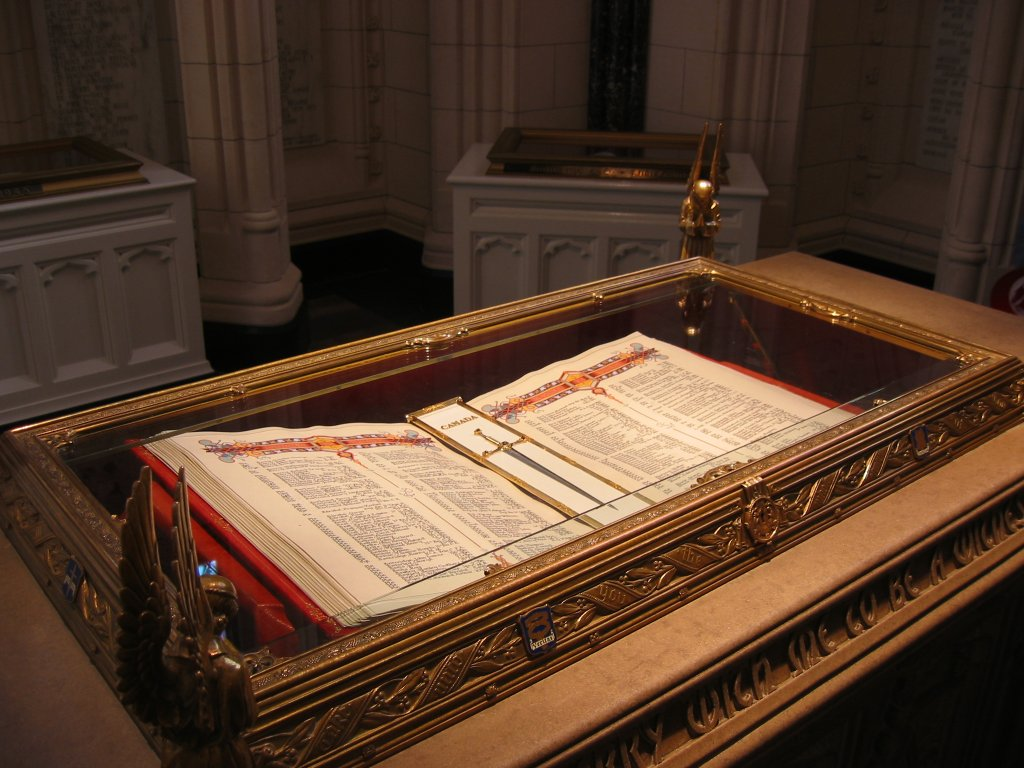 Books of Remembrance in the Peace Tower Memorial Chamber, in Ottawa, Ontario, Canada.